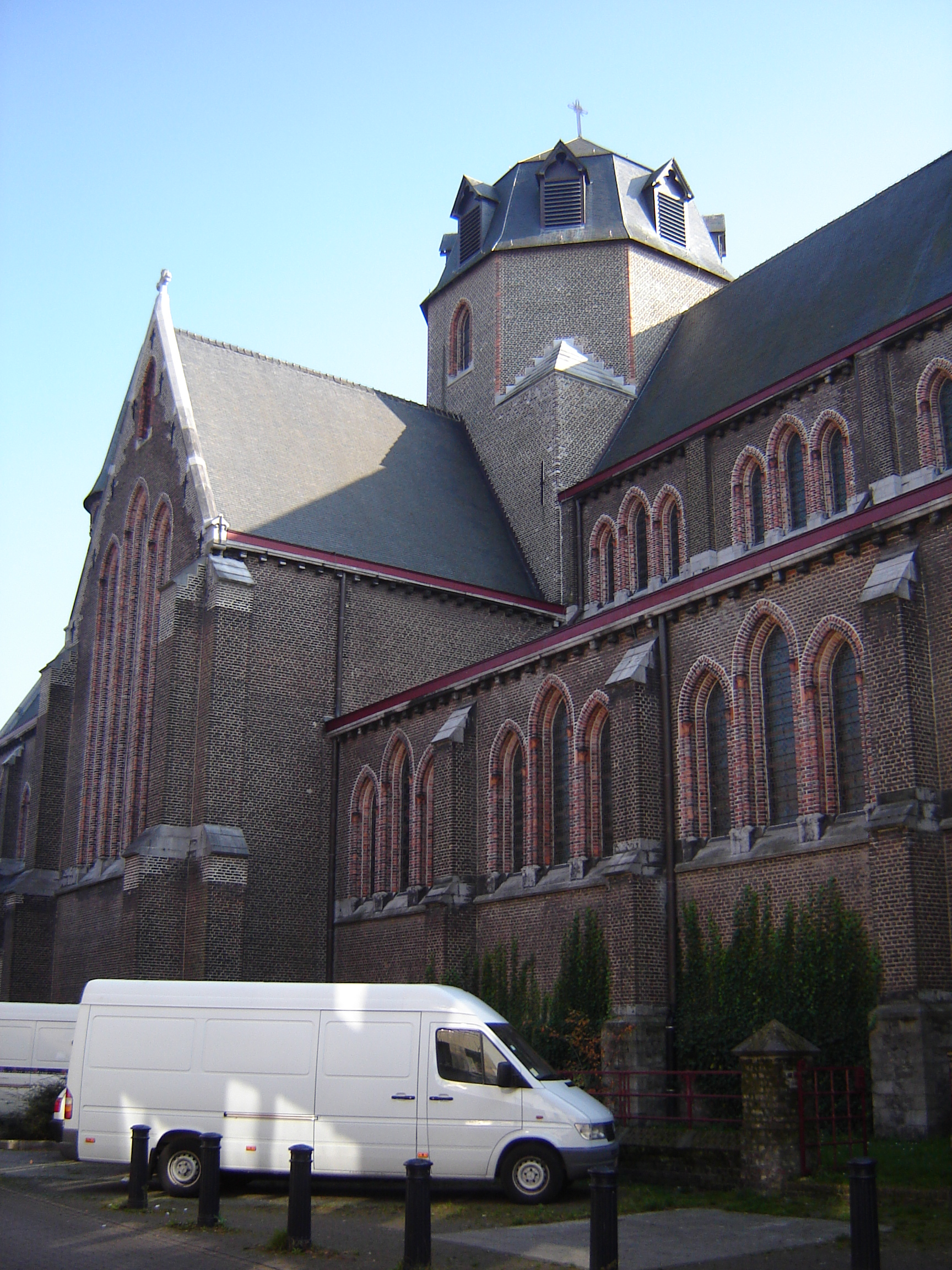 Church of Saint Joseph in Gent. Gent, East Flanders, Belgium.